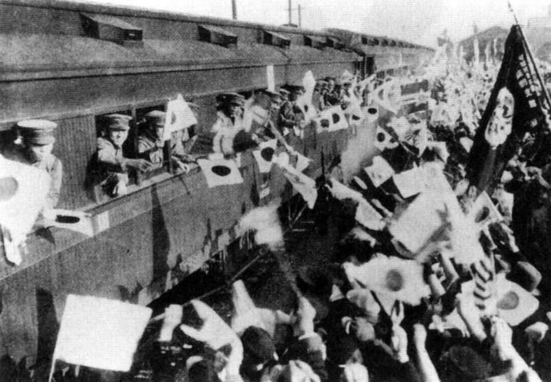 Soldiers of Imperial Japanese Army leaving Okayama Station heading to battlefield of Manchuria after Mukden Incident